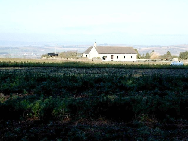 Cottage at Caldhame near Forfar